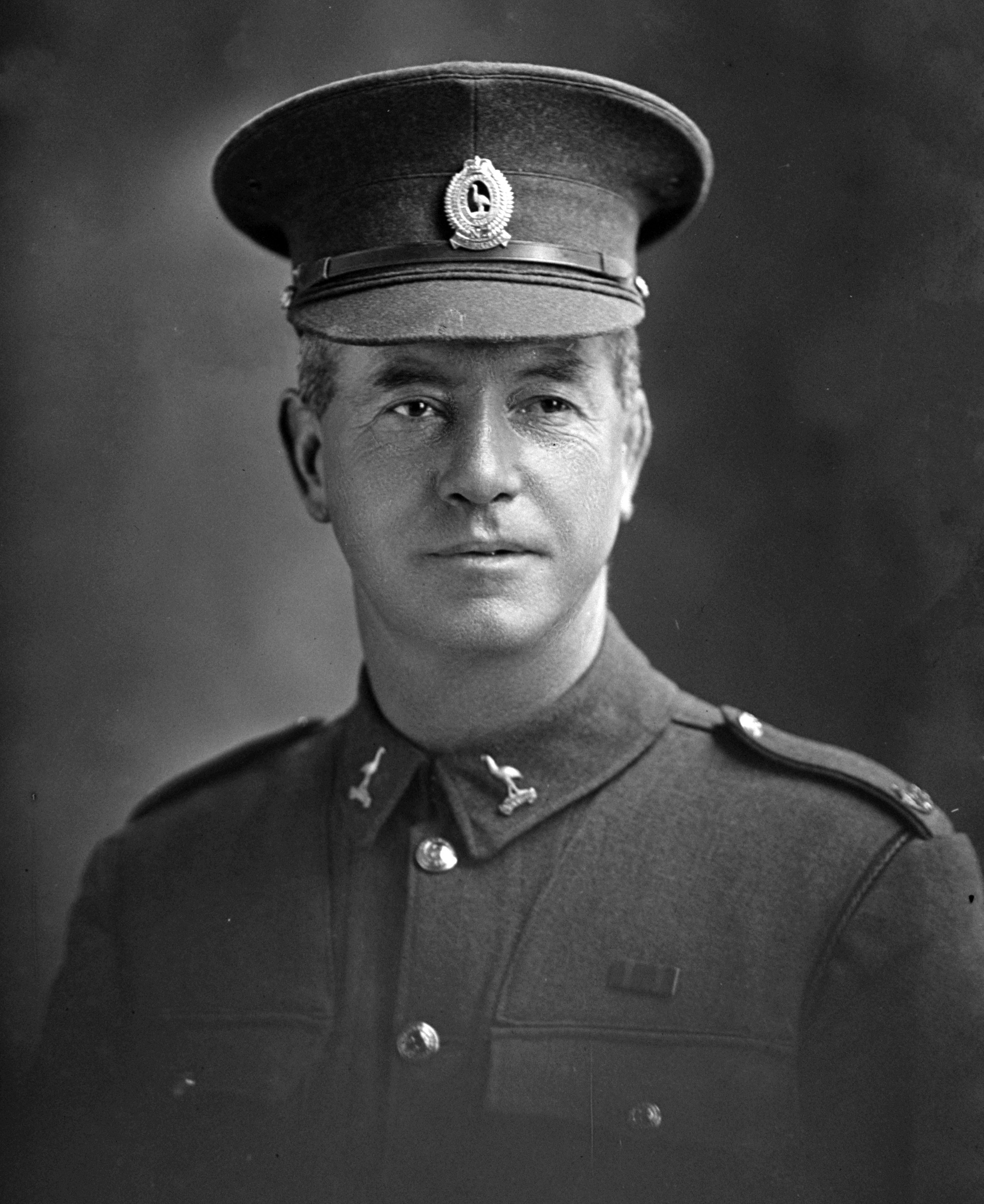 Portrait of Dave Gallaher (1873 - 1917) circa 1917.